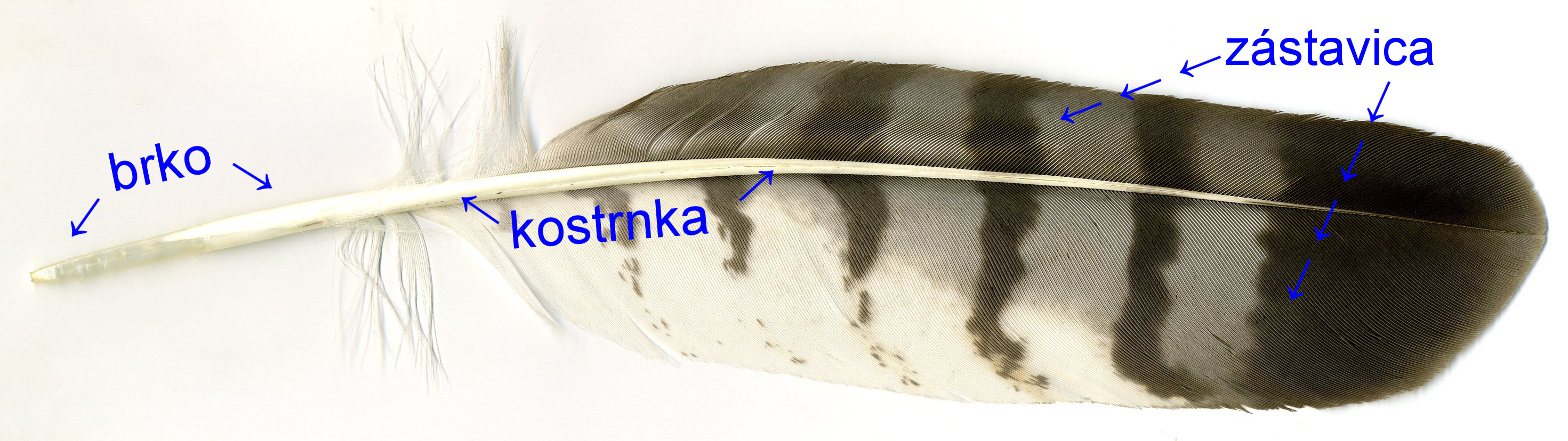 Scanning of feathers with a Flatbed Scanner seems to provide state of the art images for documenting the plumage phenotype of a bird durable. Bottom side of a primary of a Common Buzzard (Buteo buteo).